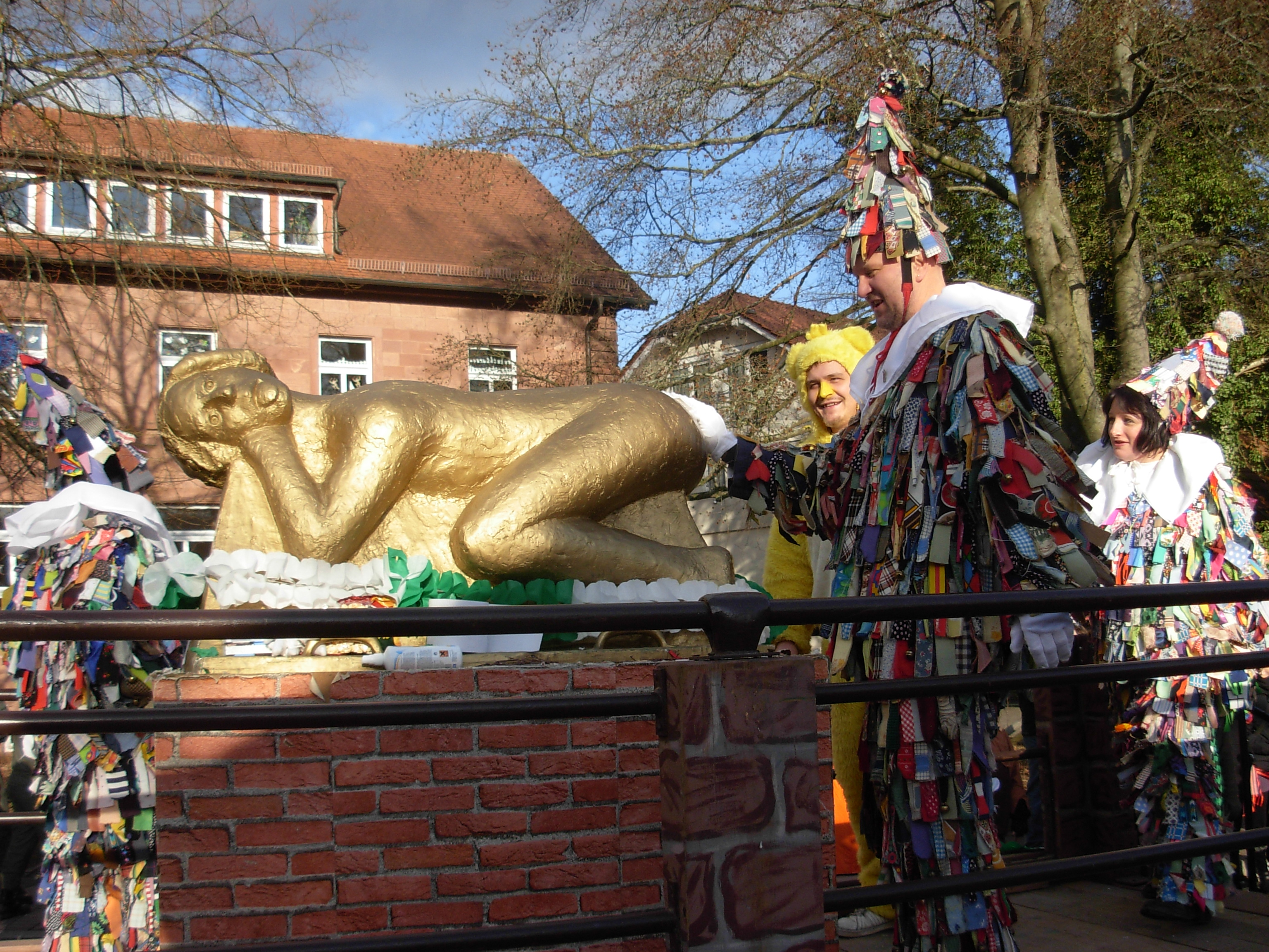 Traditional "Blecker", carnival Buchen (Odenwald), Germany